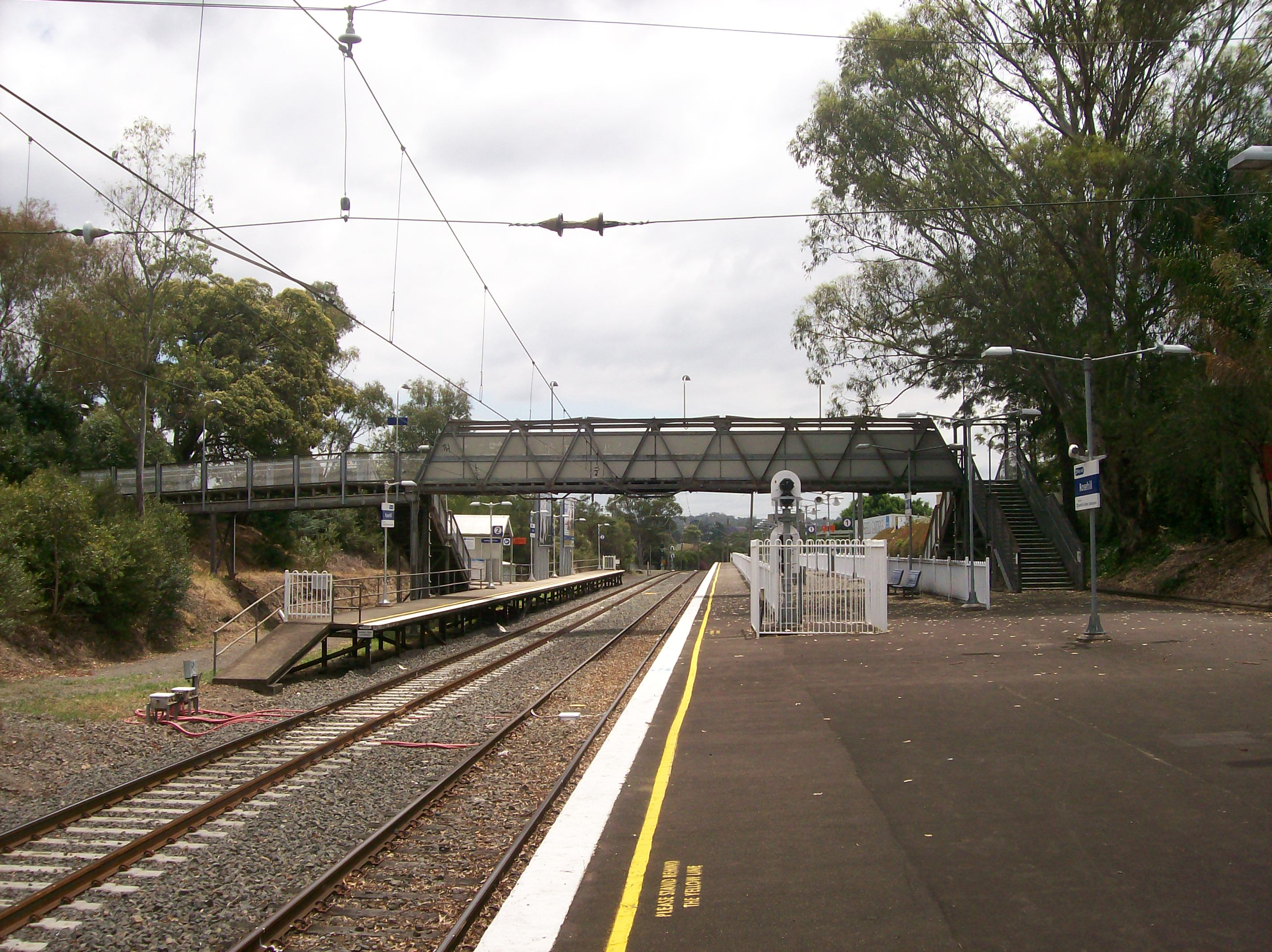 Rosehill railway station footbridge